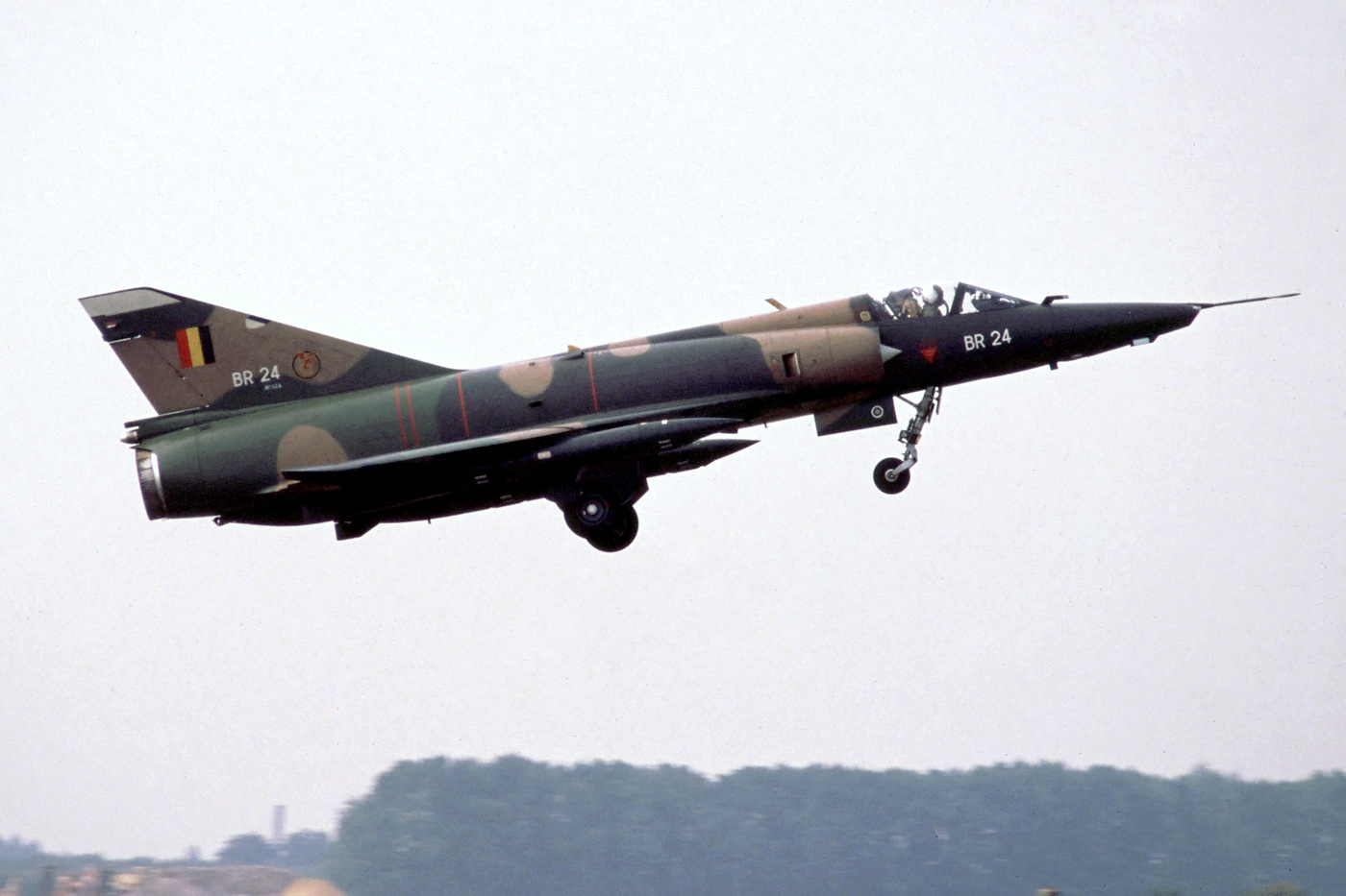 Brustem, 10 September 1989. BR24 of 42 smaldeel taking off for a demonstration during the open day.